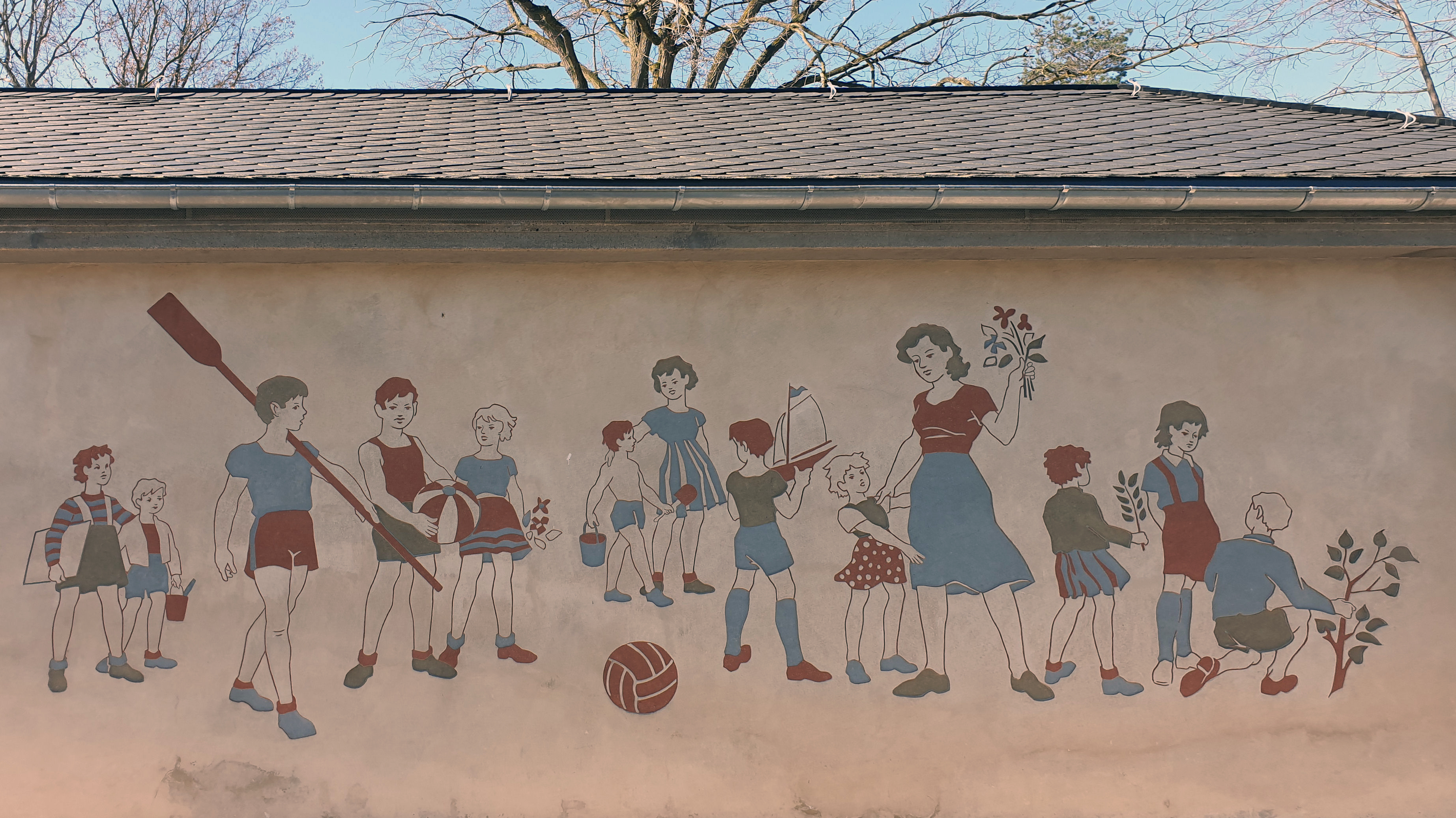 Murals, Kinderheim Makarenko, Südostallee 132, Berlin-Johannisthal, Germany